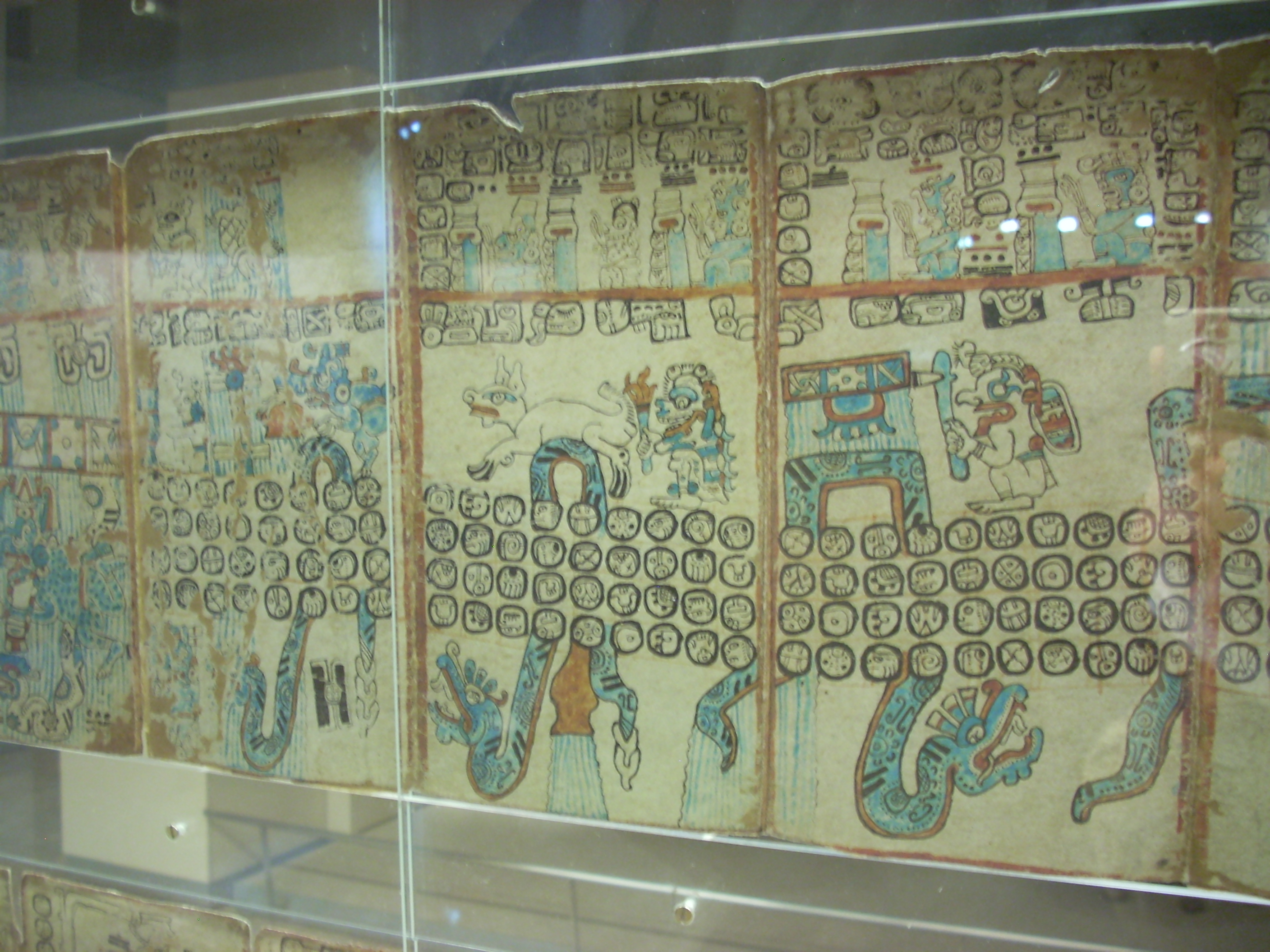 Madrid Codex (replica) in the Museum of the Americas, Madrid. Late Postclassic Maya book.